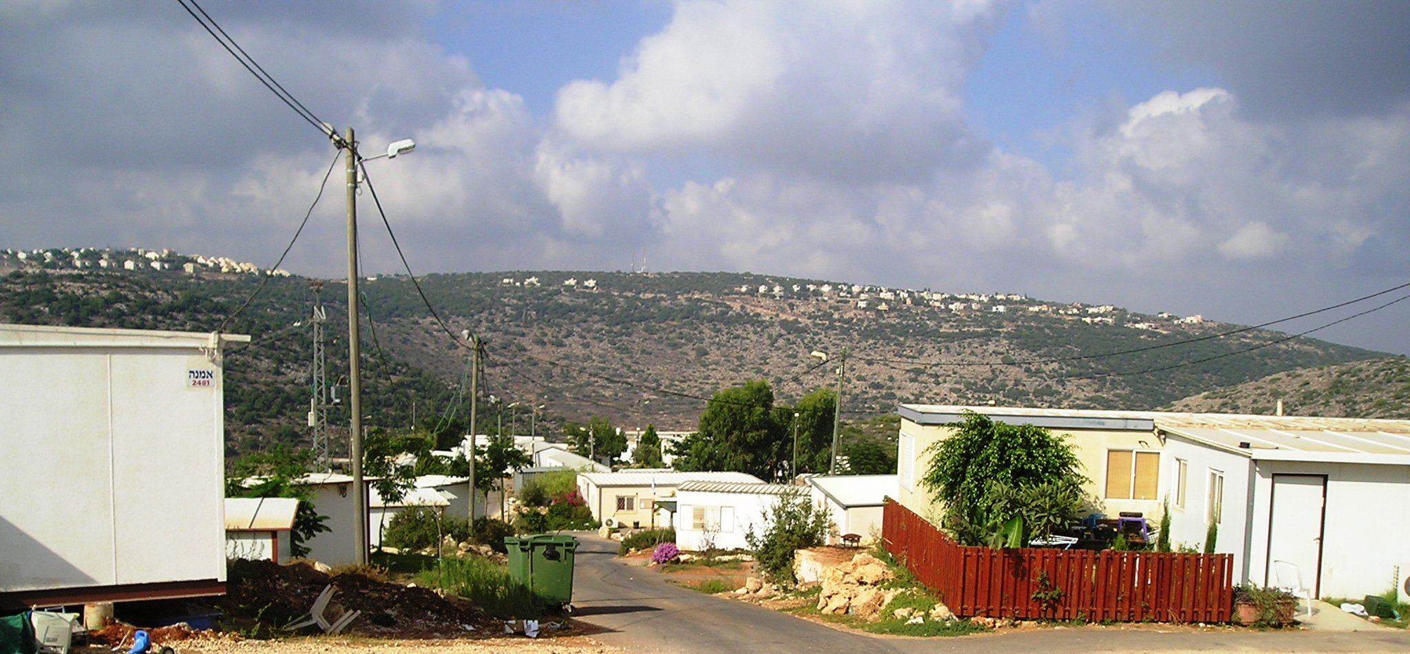 The_students__homes_Midreshet_Shilat